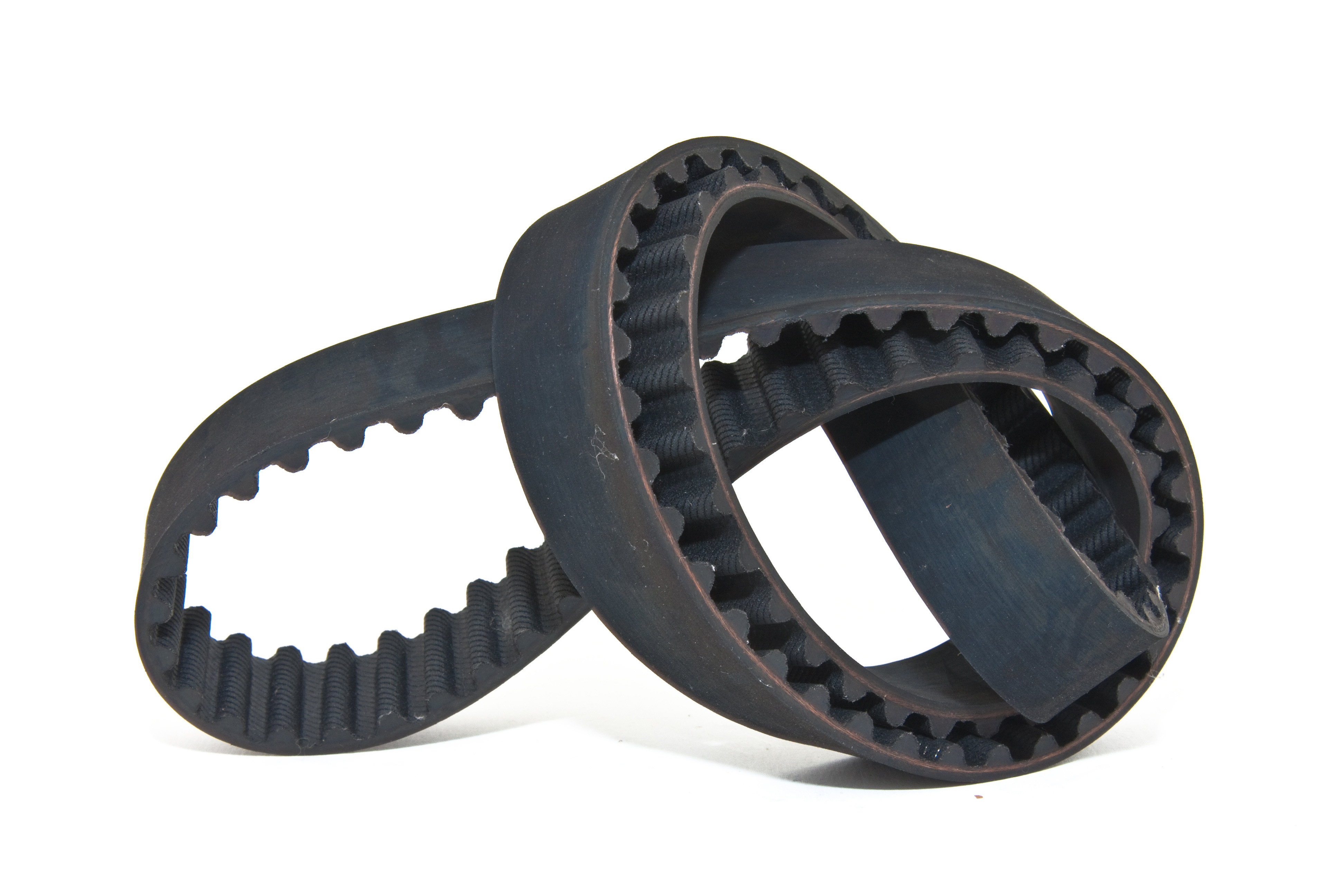 2001 Honda Accord timing belt. Don't do this with timing belts, the tight flexure of knotting them damages the internal reinforcement)